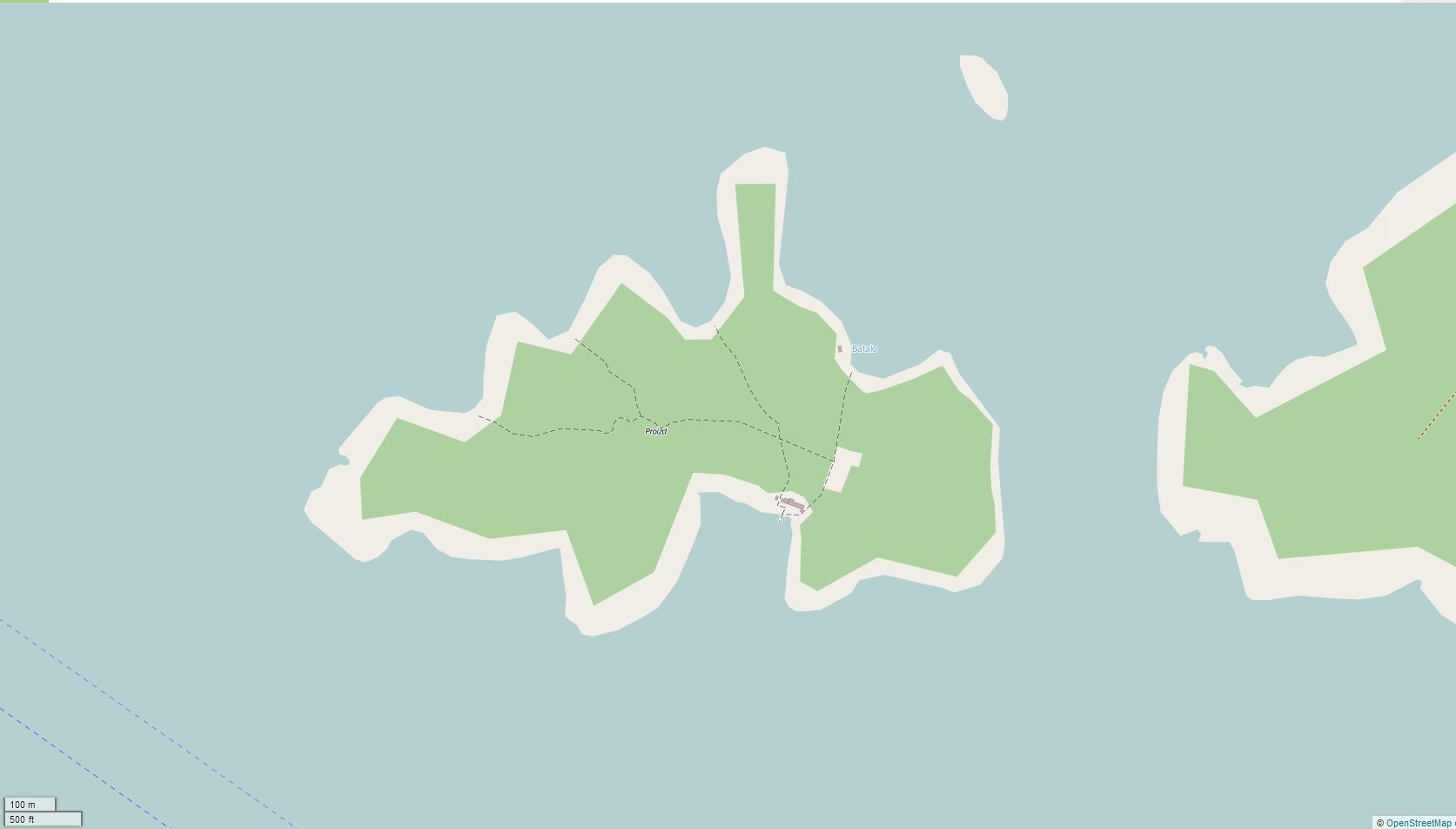 Island of Proizd